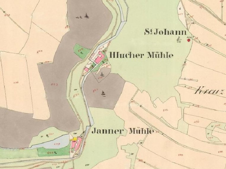 Třebíč. Libuše valley. John's mill and Hluchý mill. Part of Imperial Imprint of the Stable Cadastre from 1835